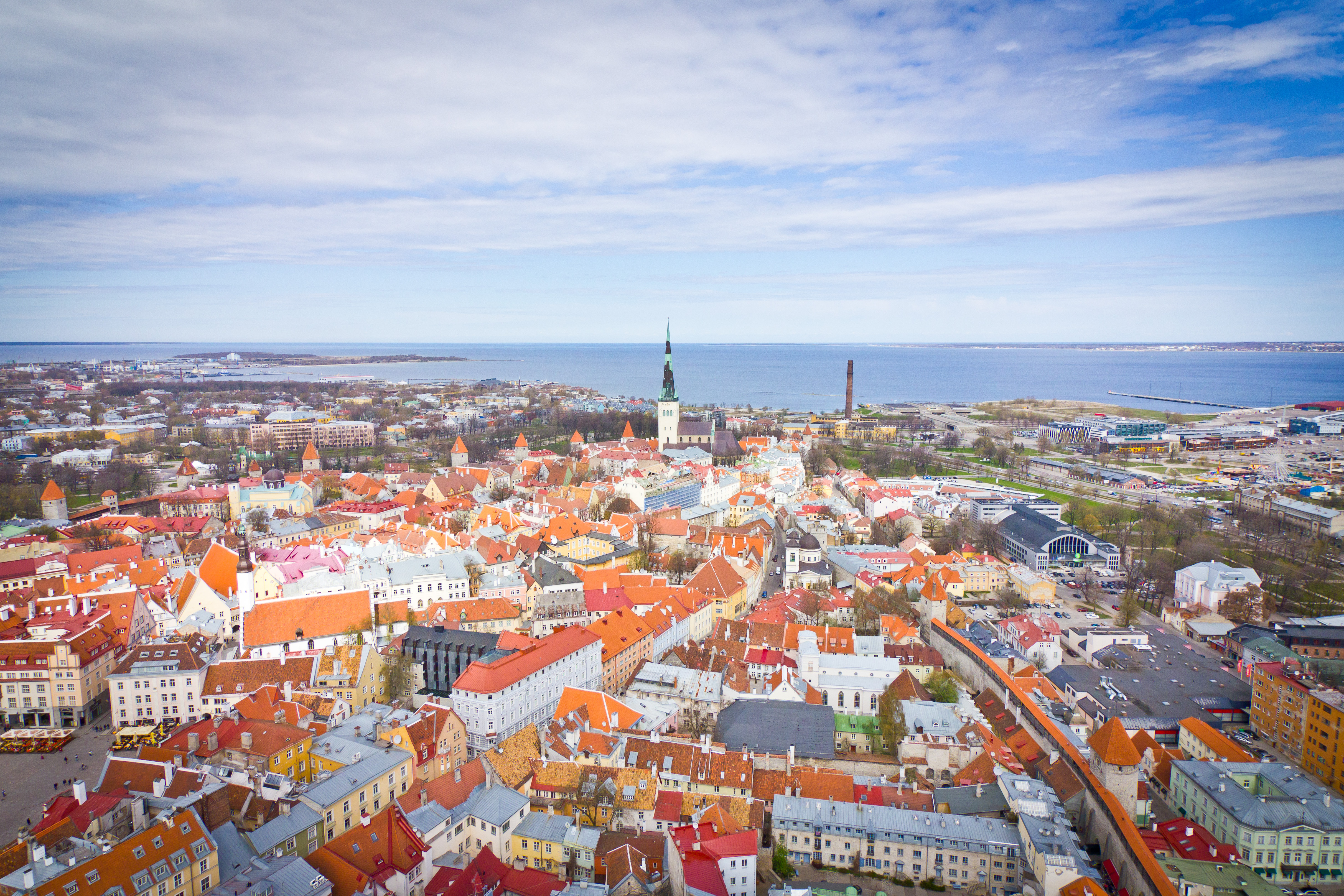 Tallinn Old Town, view from Helicam, 2012